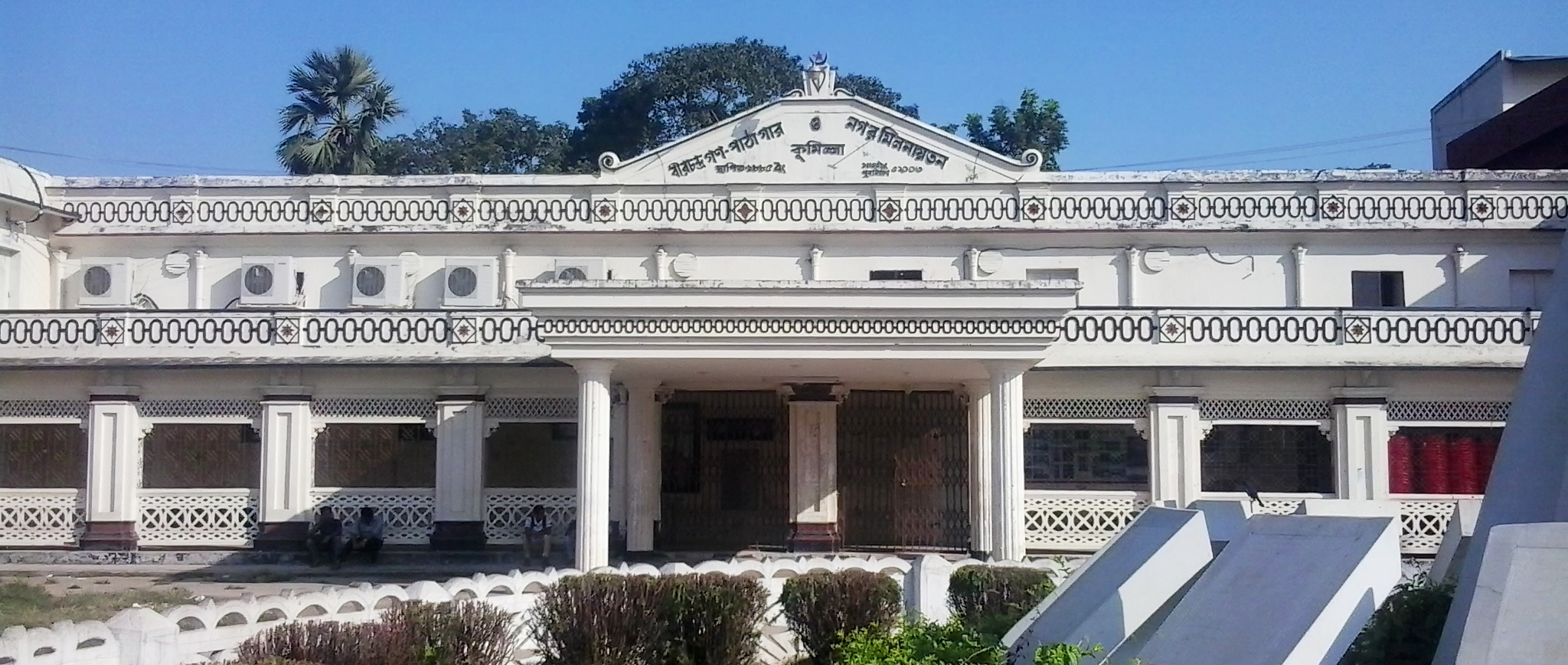 Birchandra pathagar and Town hall, comilla